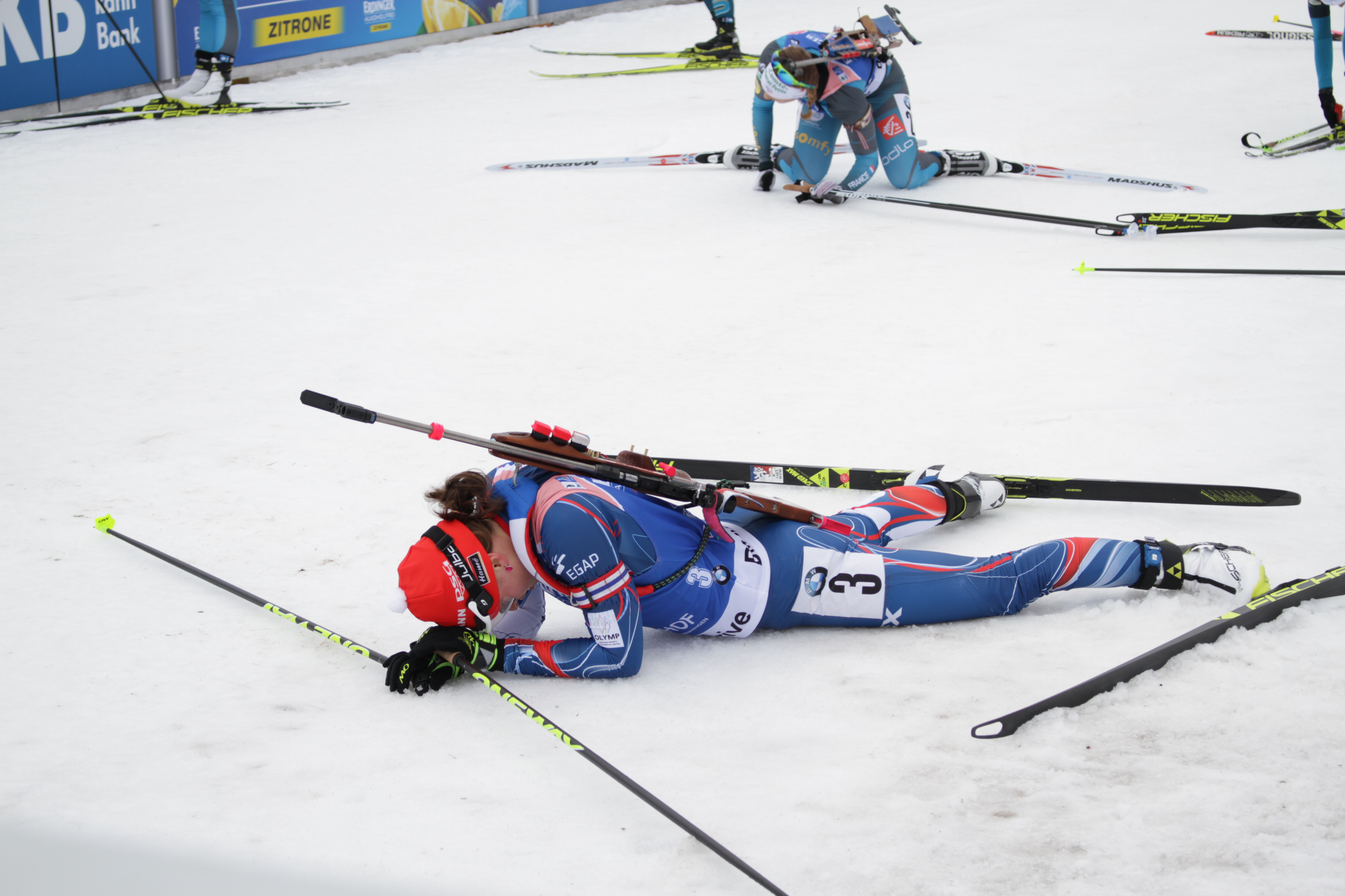 2018 Oberhof Biathlon World Cup - Pursuit Women